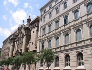 Side view of Col-legi Casp Sagrat Cor de Jesús